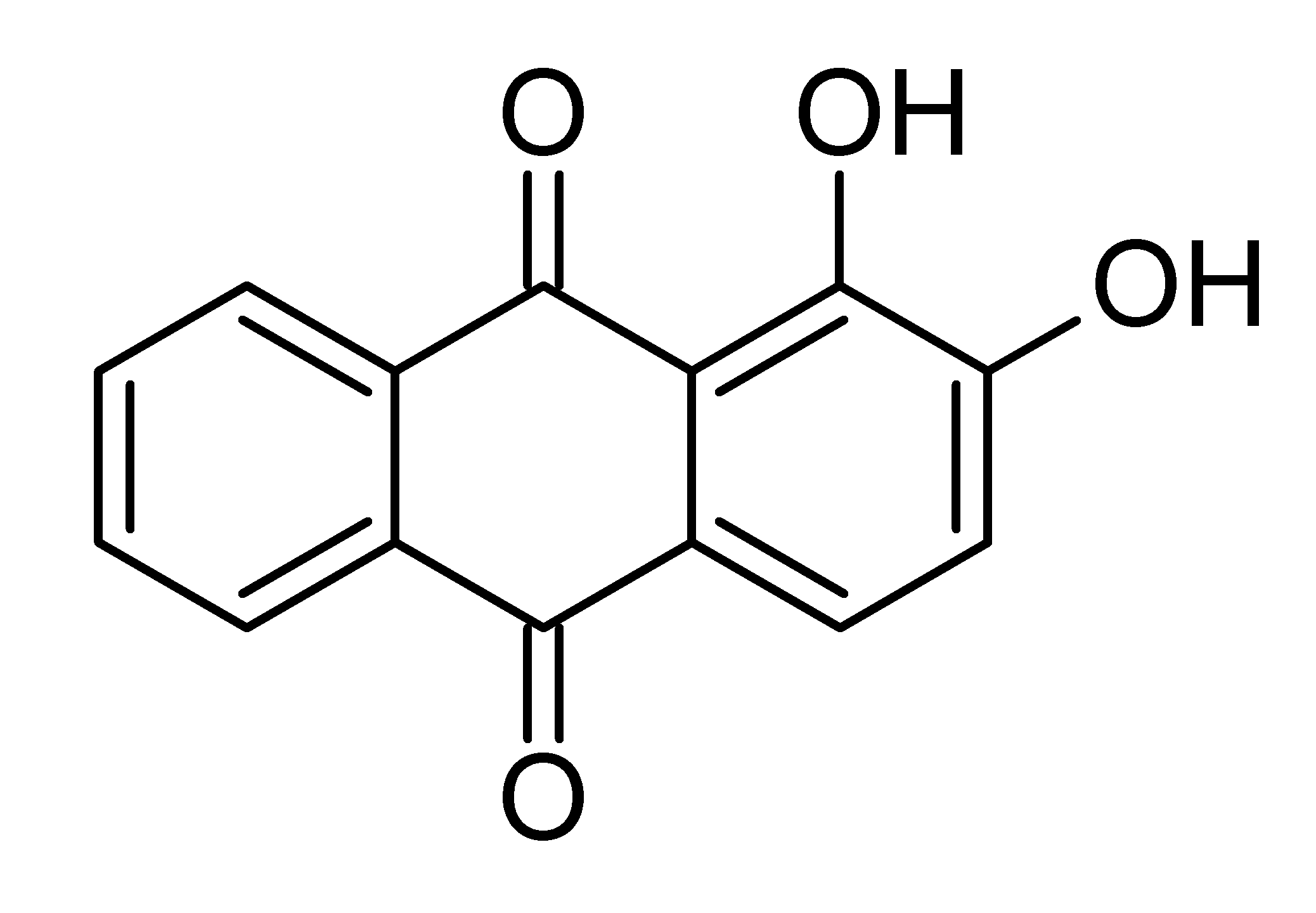 Chemical structure of Alizarin, other names are mordant red and 1,2-dihydroxyanthraquinone.